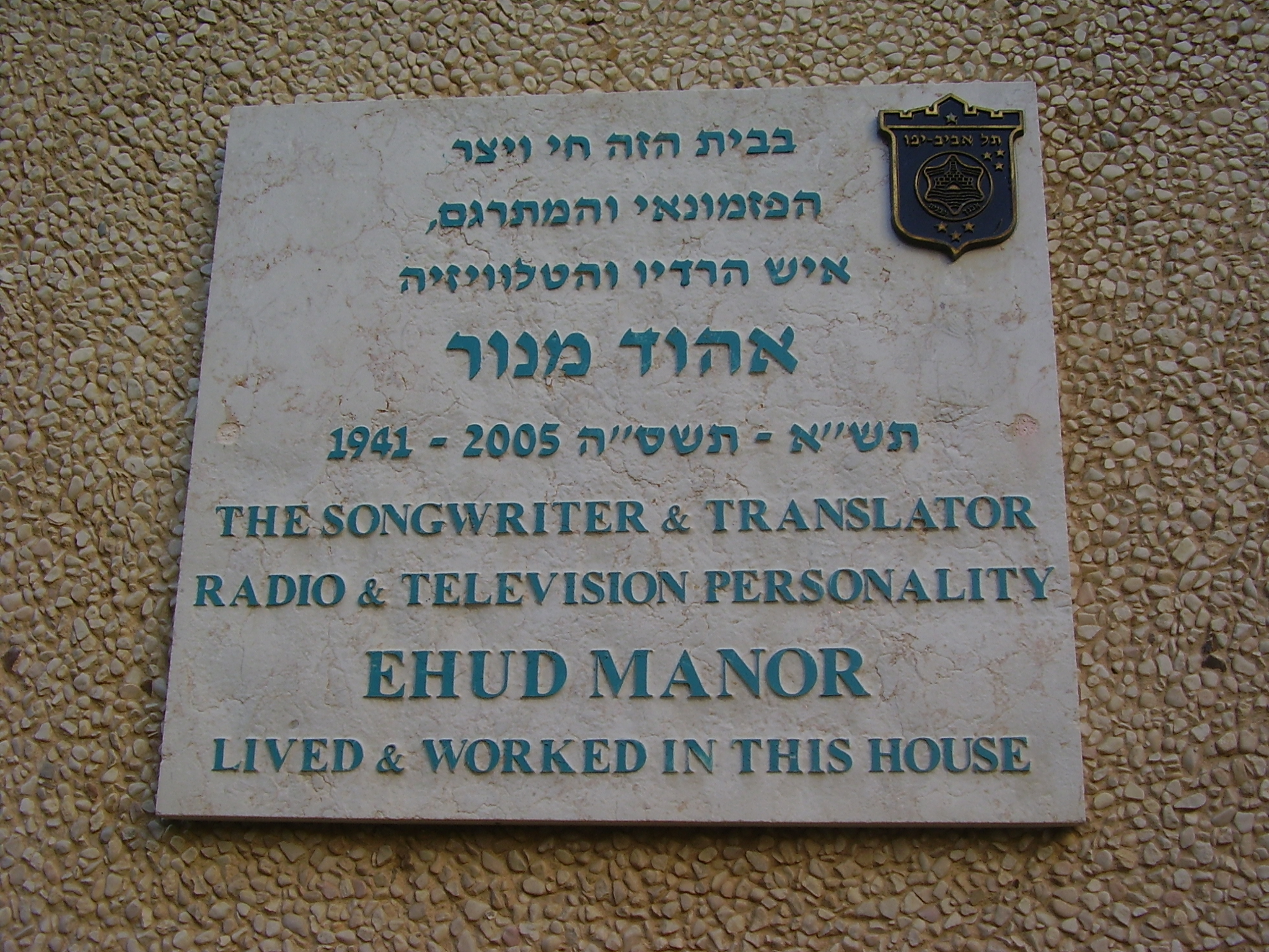 memorial plaque on the house of the songwriter ehud manor in tel aviv לוחית זיכרון על ביתו של אהוד מנור ברח' בראלי 8 בתל אביב